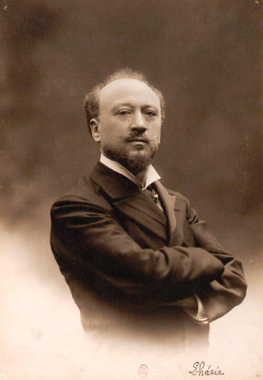 Paul Lhérie (1844–1937), French operatic tenor and baritone